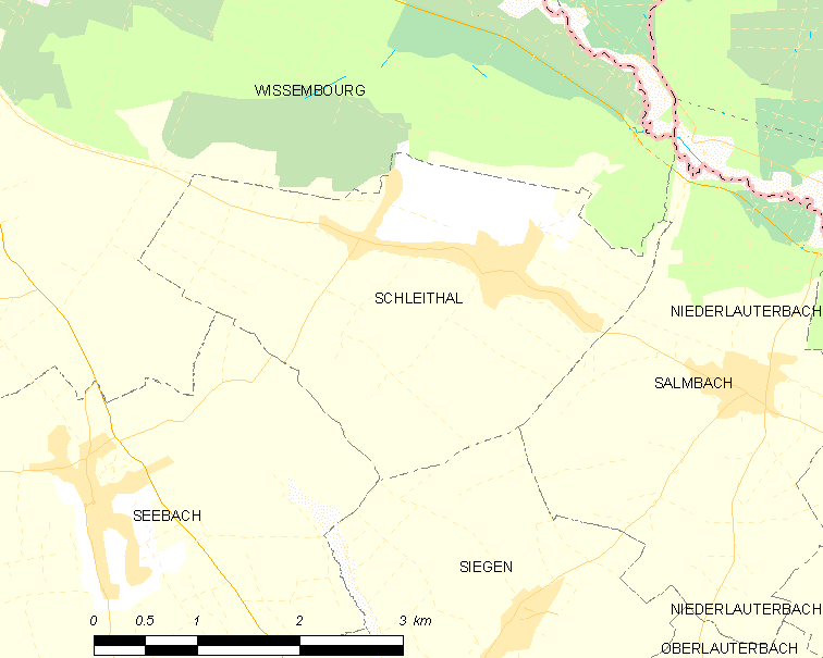 Map of French municipality